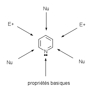 pyrdine reactivity